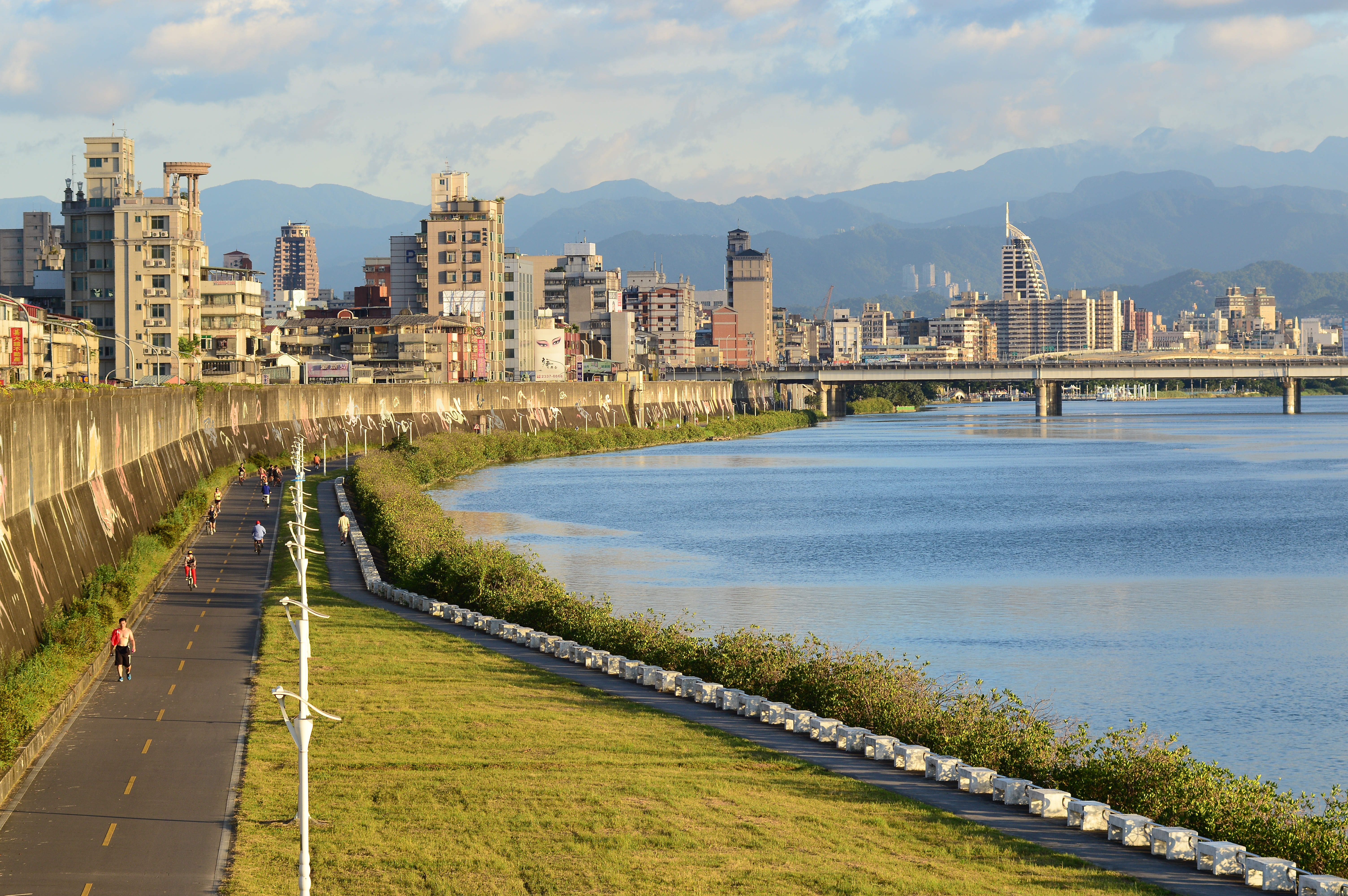 Taipei city Taiwan